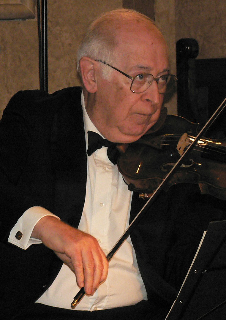 Komlós Péter 2009-ben Solymáron